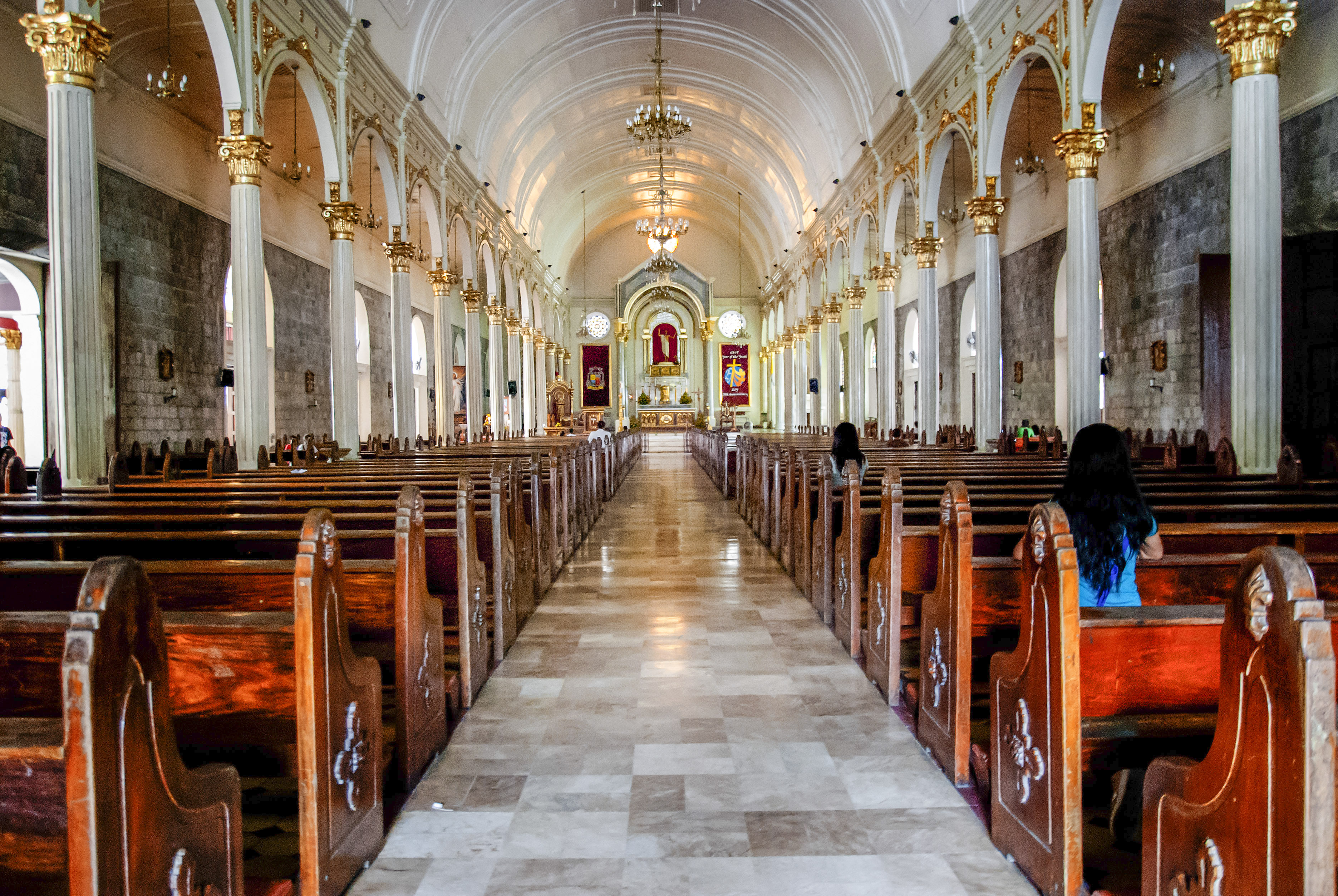 The San Sebastian Cathedral is a late 19th-century church in Bacolod City, Negros Occidental in the Philippines.